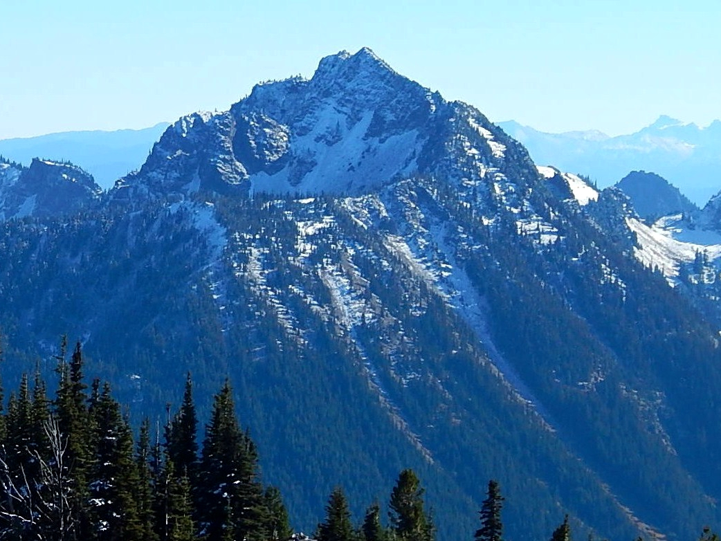 Tamanos Mountain in Mount Rainier National Park seen from Sourdough mountain trail